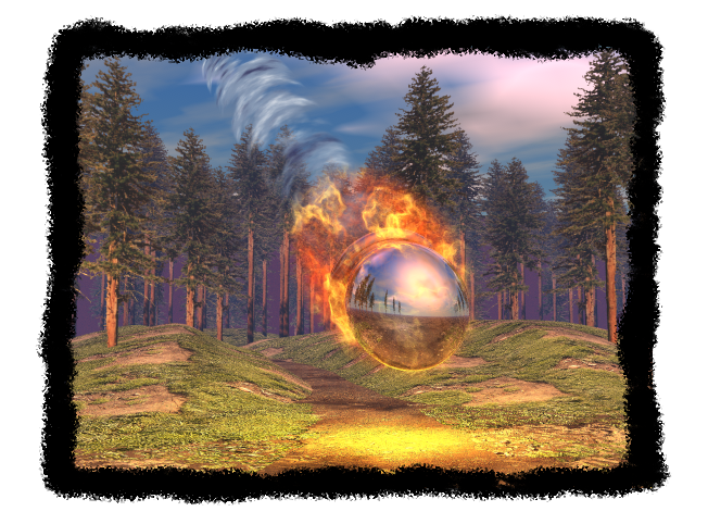 own creation